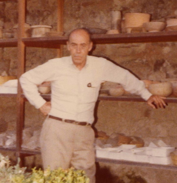 Archaeologist Ed Shook standing in front of pre-Columbian pottery at his home in Antigua, Guatemala, 1979 (Edwin M. Shook, 1911–2000)